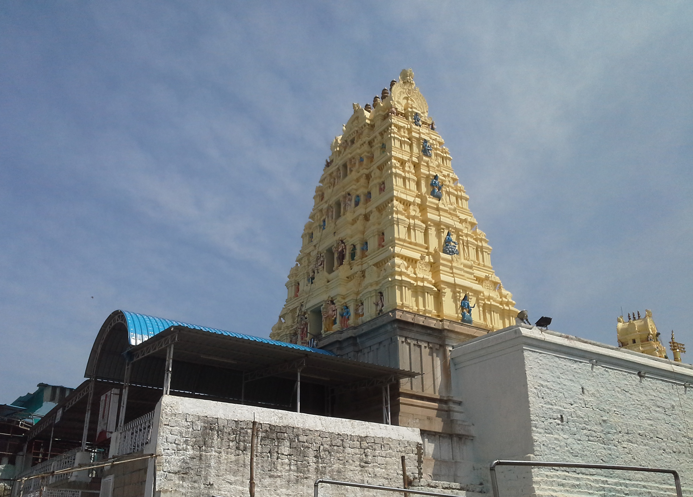 Main Gopuram of Yadagirigutta temple, Nalgonda district, Telangana